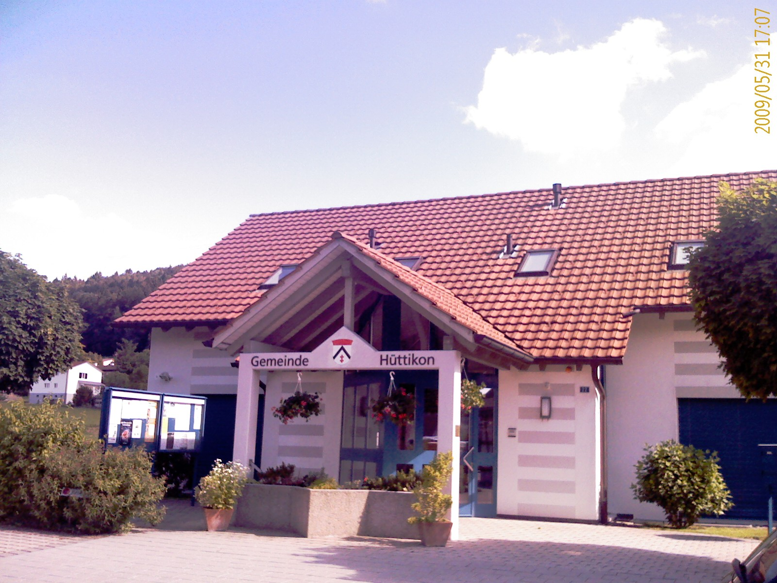 Hüttikon - municipal administration, canton of Zürich, SwitzerlandEsperanto: Hüttikon - komunuma domo, Kantono Zuriko, Svislando